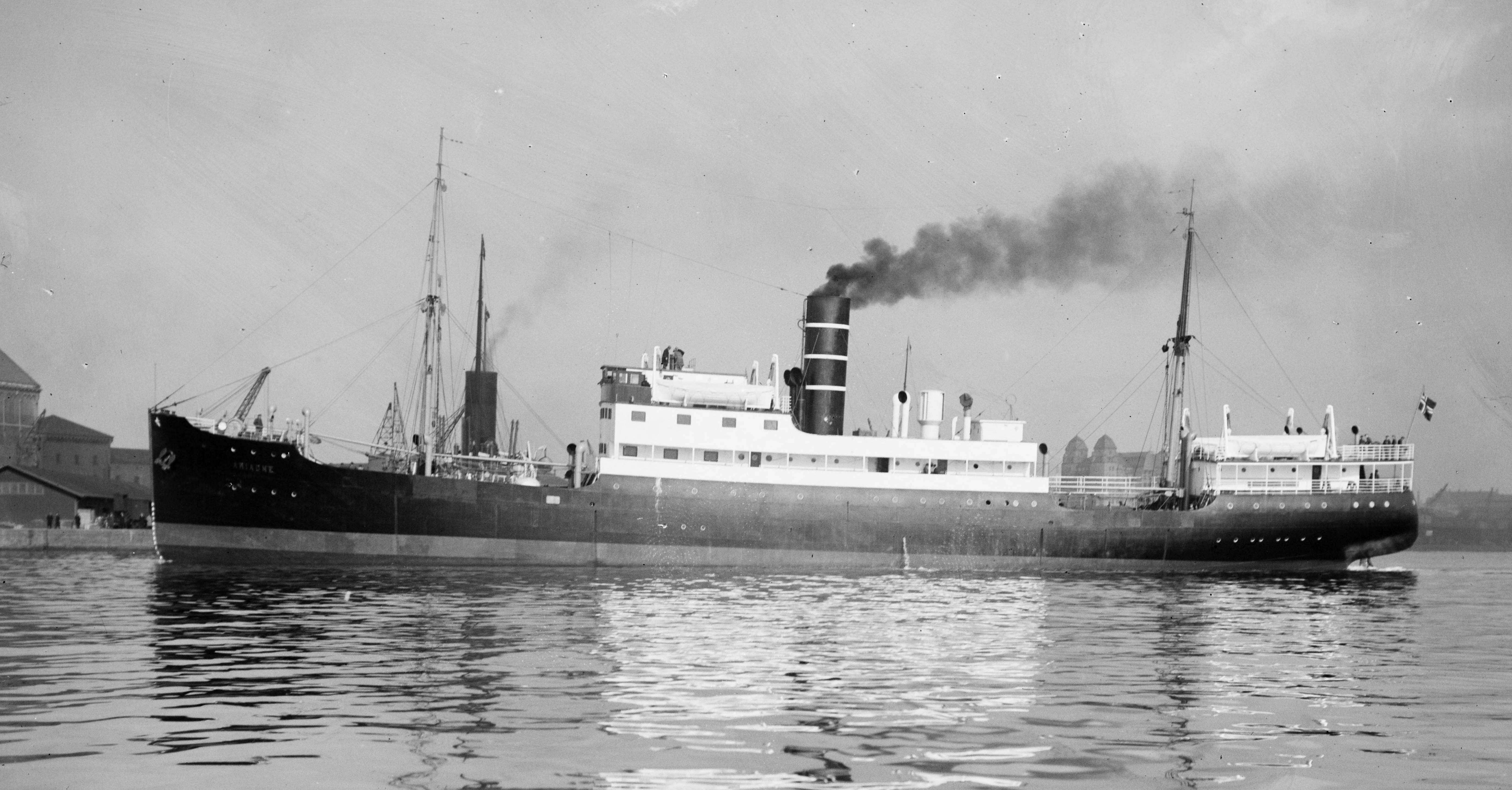 Norwegian steamship Ariadne, built in 1930.